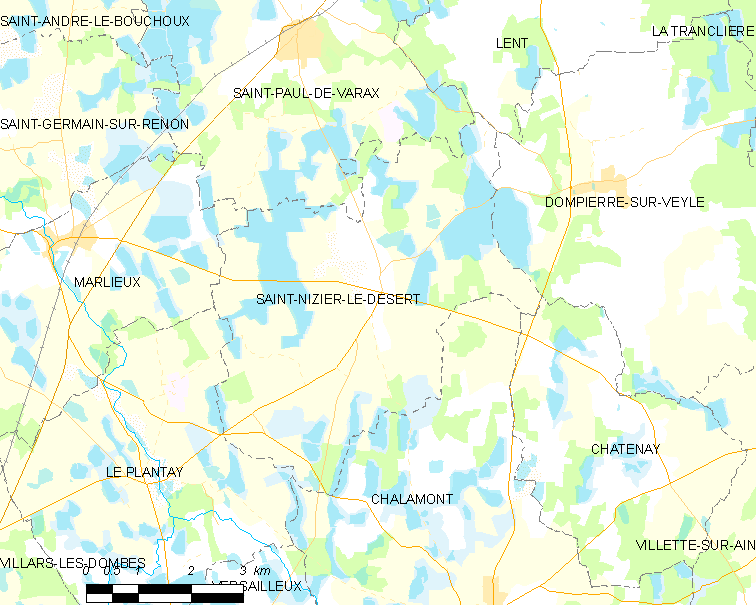 Map of French commune: Saint-Nizier-le-Désert Map commune FR insee code 01381.png